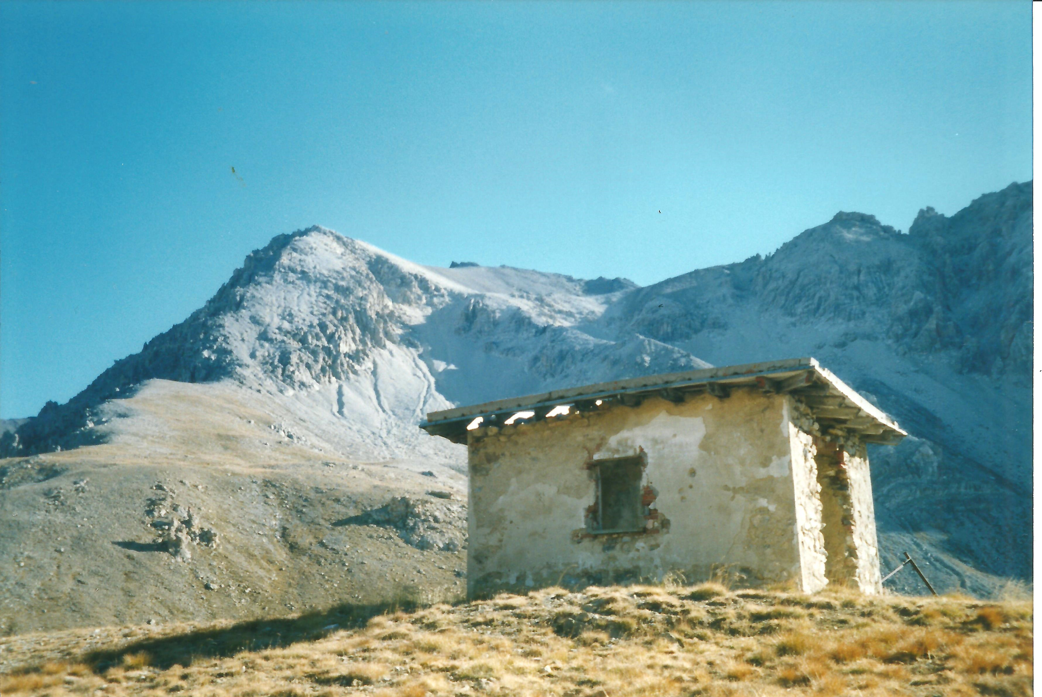 Pointe Rochers Charniers (Cottian Alps) as seen from Col des Trois Frères Mineurs (France, Hautes Alpes)